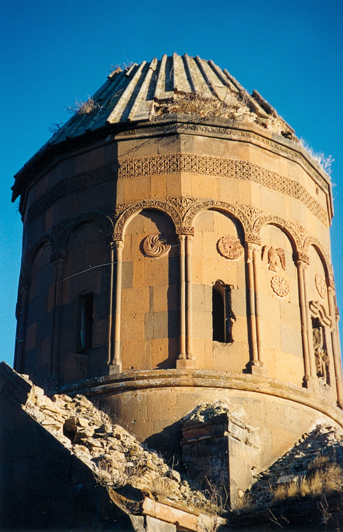 Church of St. Gregory, Ani, Turkey.